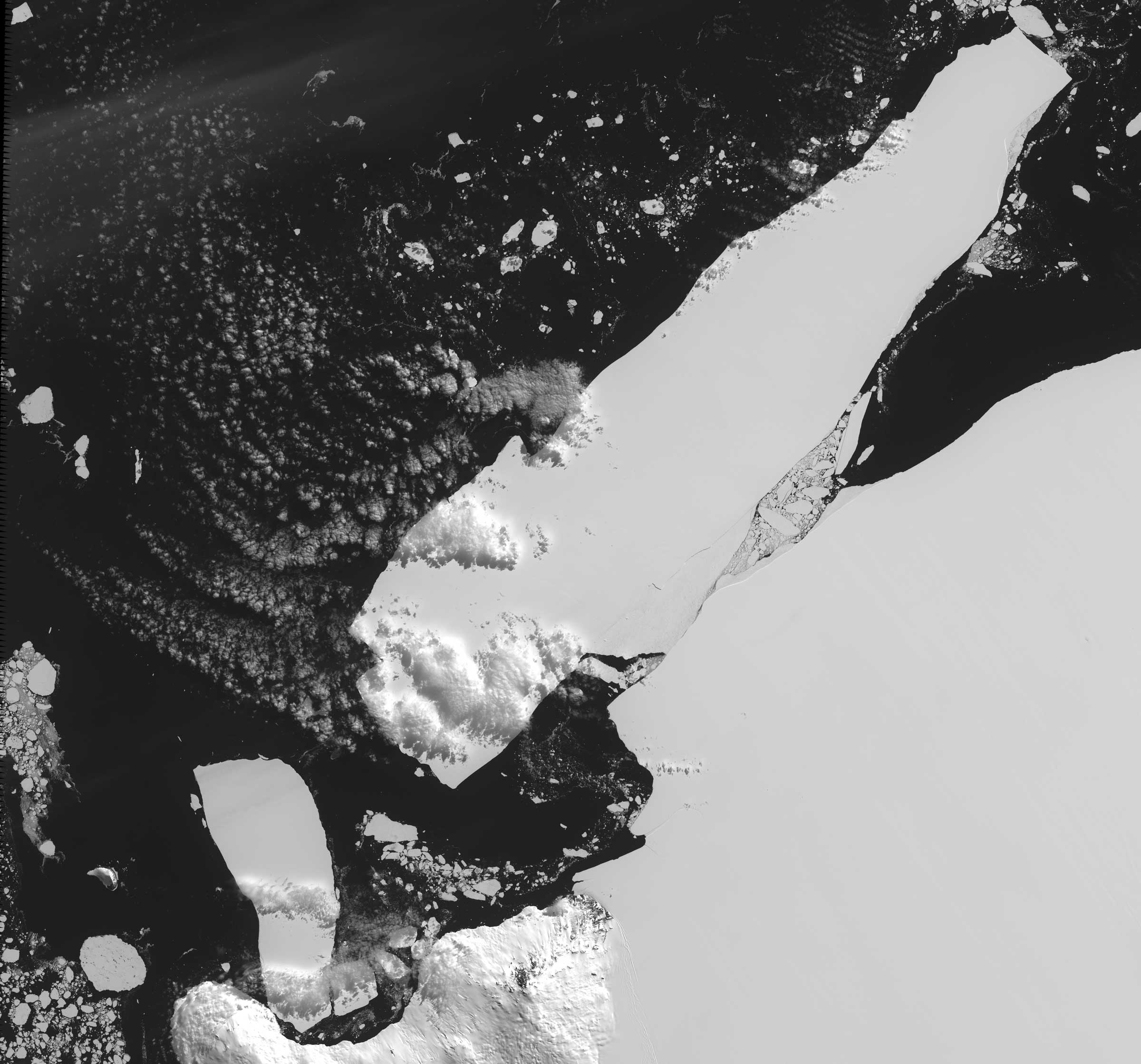 Landsat satellite image of Iceberg B-15 in January 2001. The iceberg covered about 11,000 square miles, approximately twice the size of Delaware.